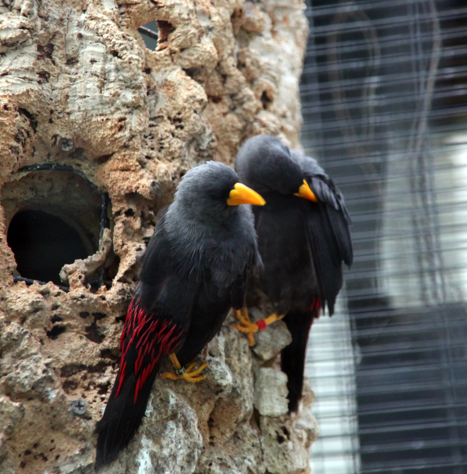 Two Grosbeak Starlings at San Diego Zoo, California, USA.